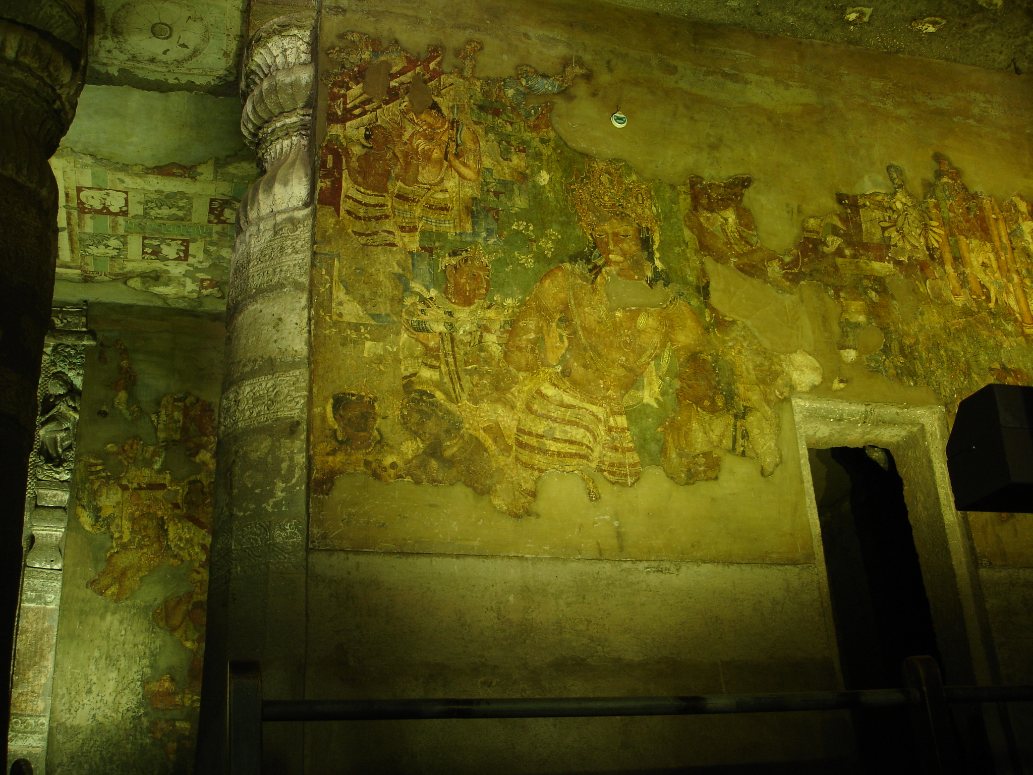 thumb|300px|right|Fresco from Cave No. 1 at the Ajanta caves